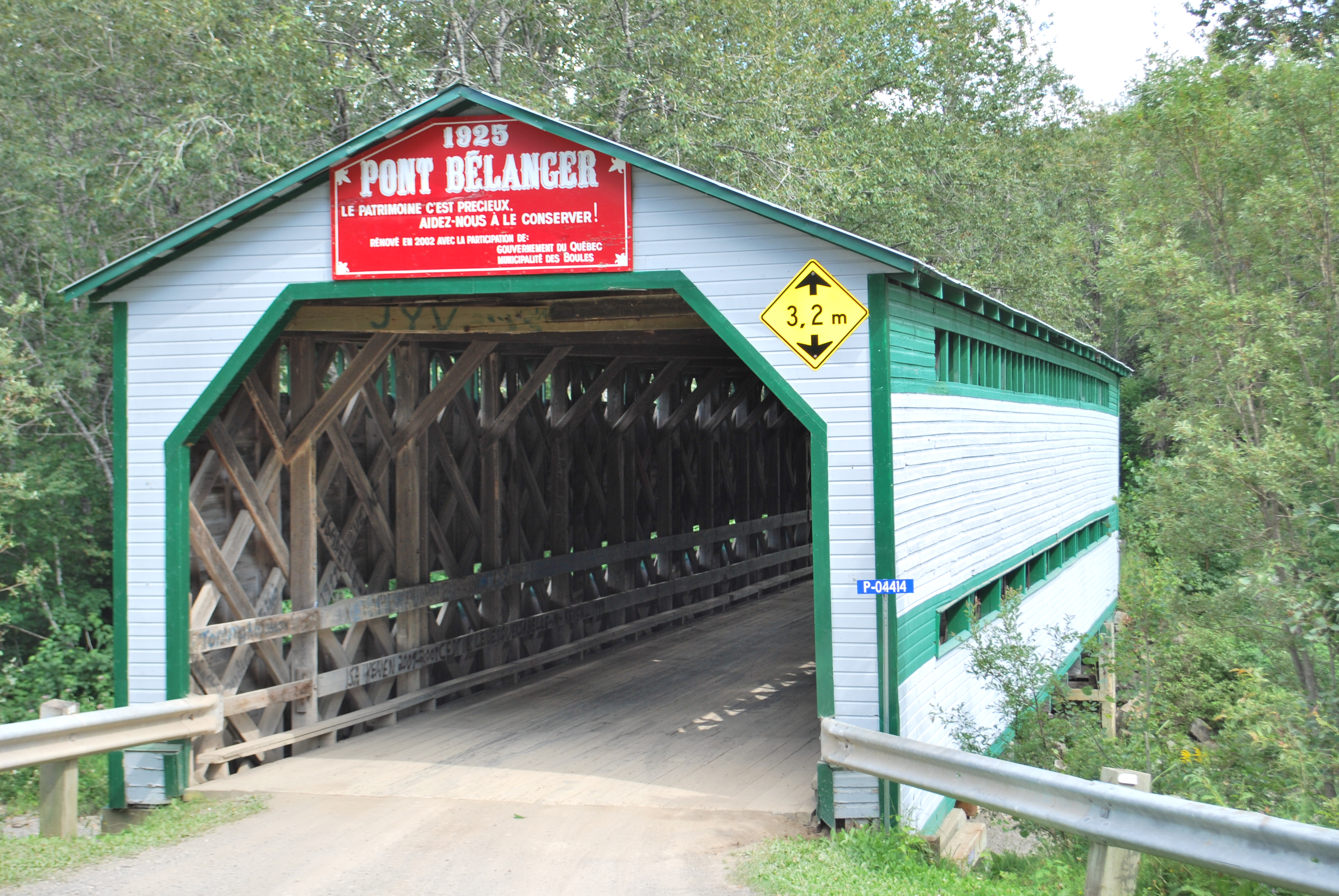 The Bélanger covered bridge, in Les Boules, Gaspésie, Quebec. Built in 1925